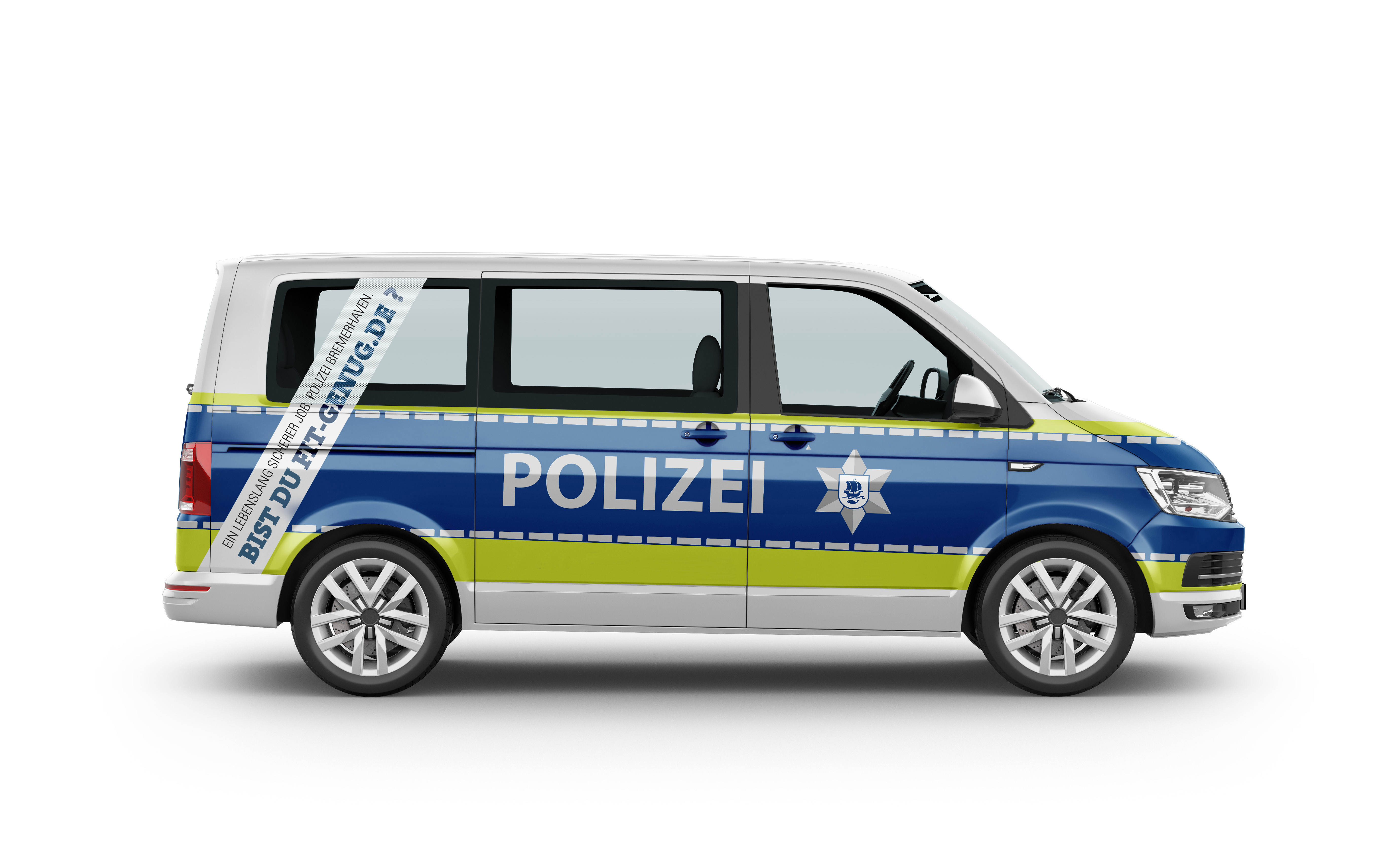 Actual design of Bremerhaven's police cars in honor of its 75. anniversary